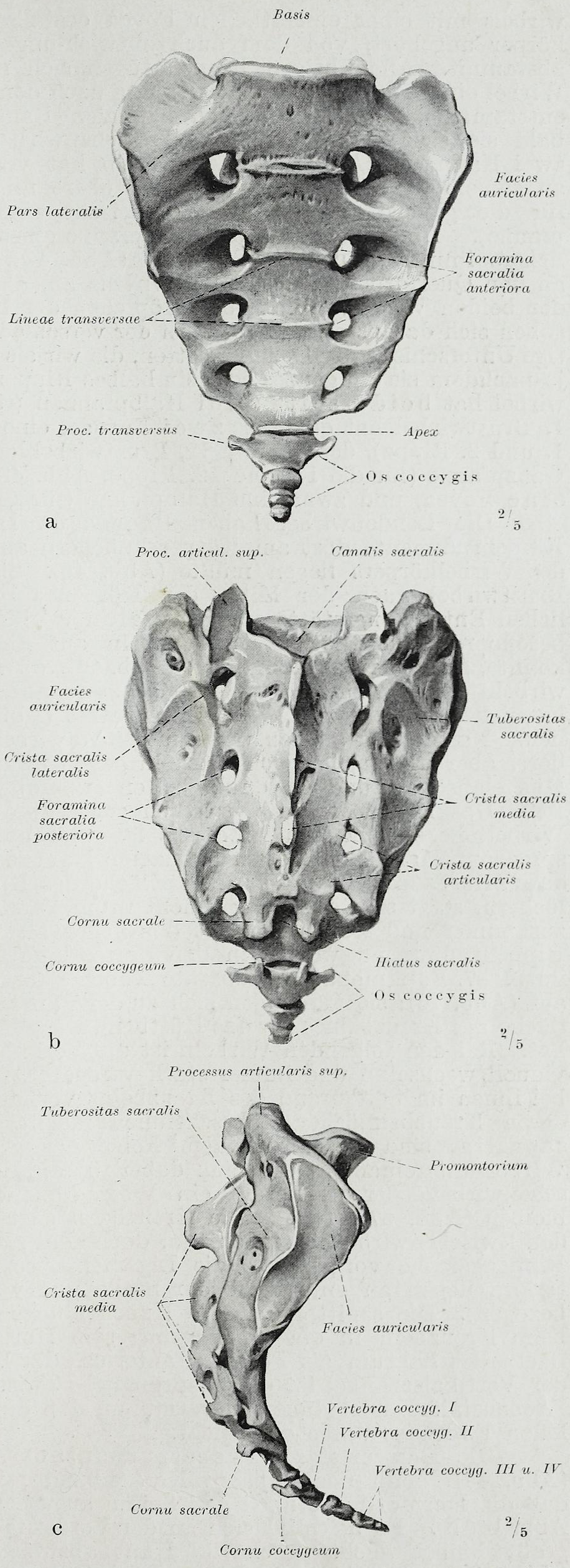 An anatomical illustration from the 1921 German edition of Anatomie des Menschen: ein Lehrbuch für Studierende und Ärzte with latin terminology.